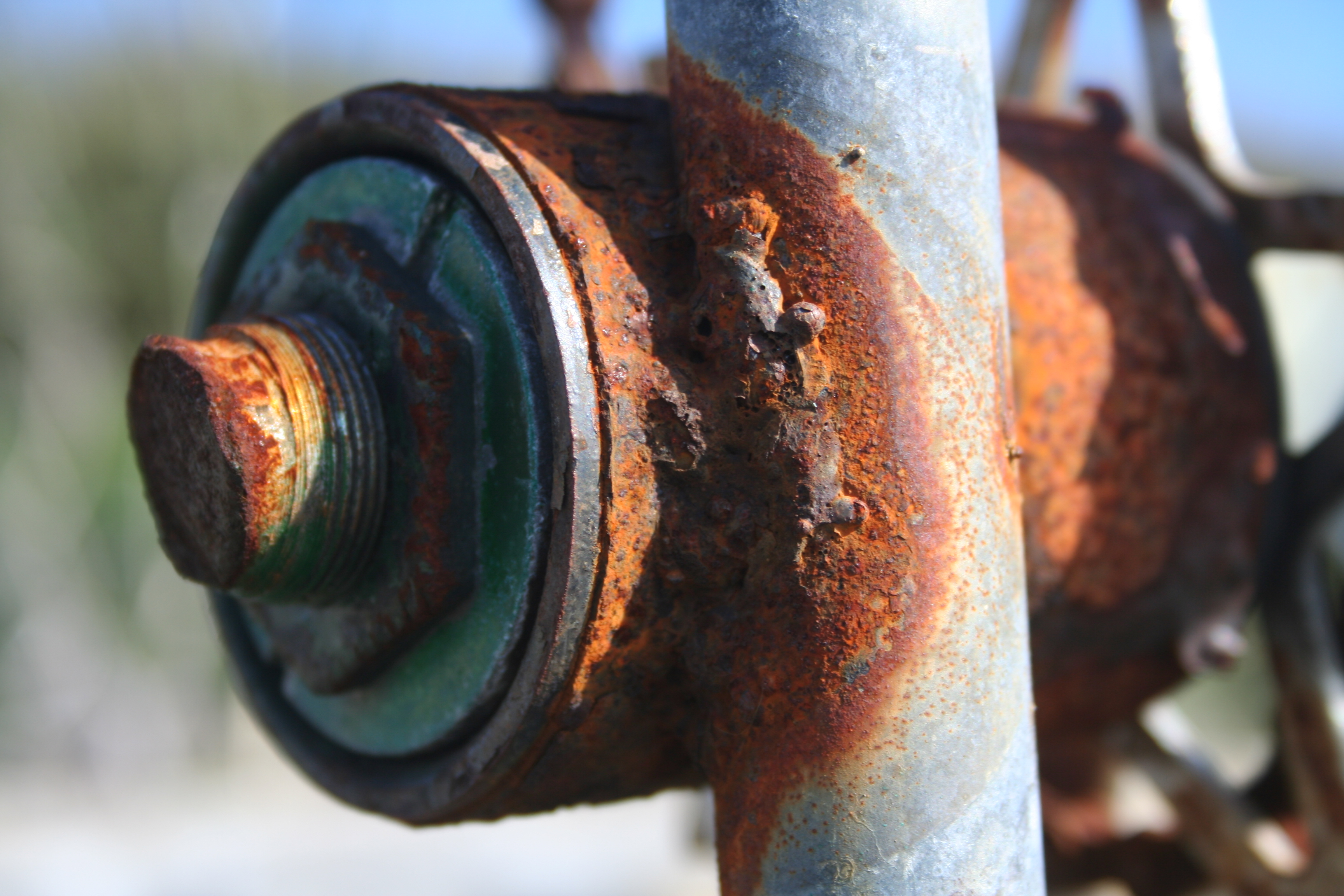 Photographed by and copyright of (c) David Corby (User:Miskatonic, uploader)